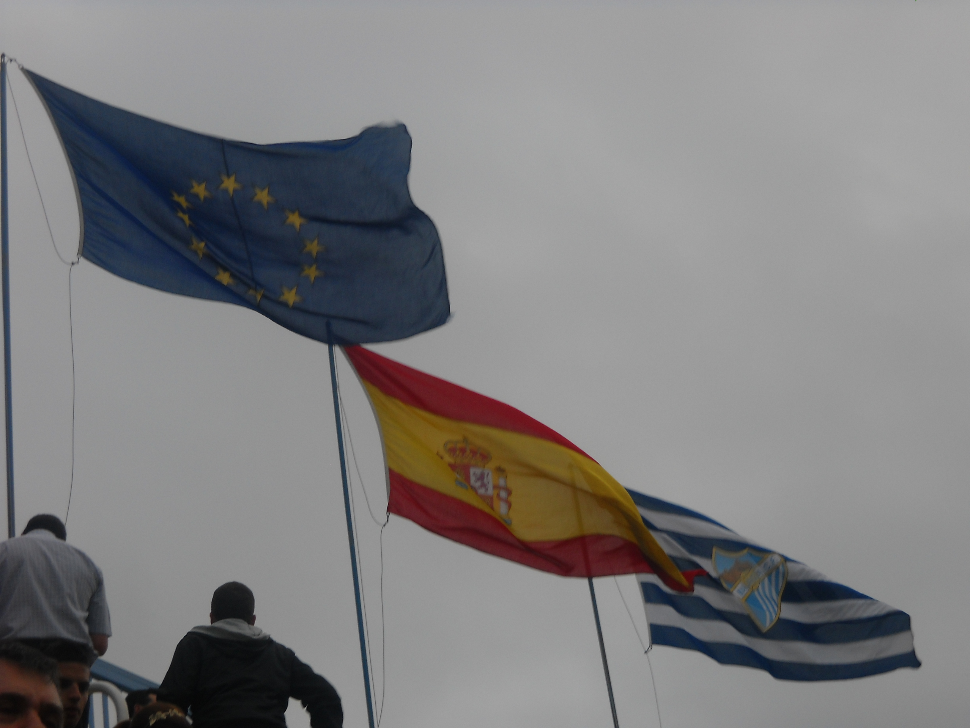 Flags of the EU, Spain and Málaga CF (La Rosaleda Stadium), Malaga, Andalusia, Spain.